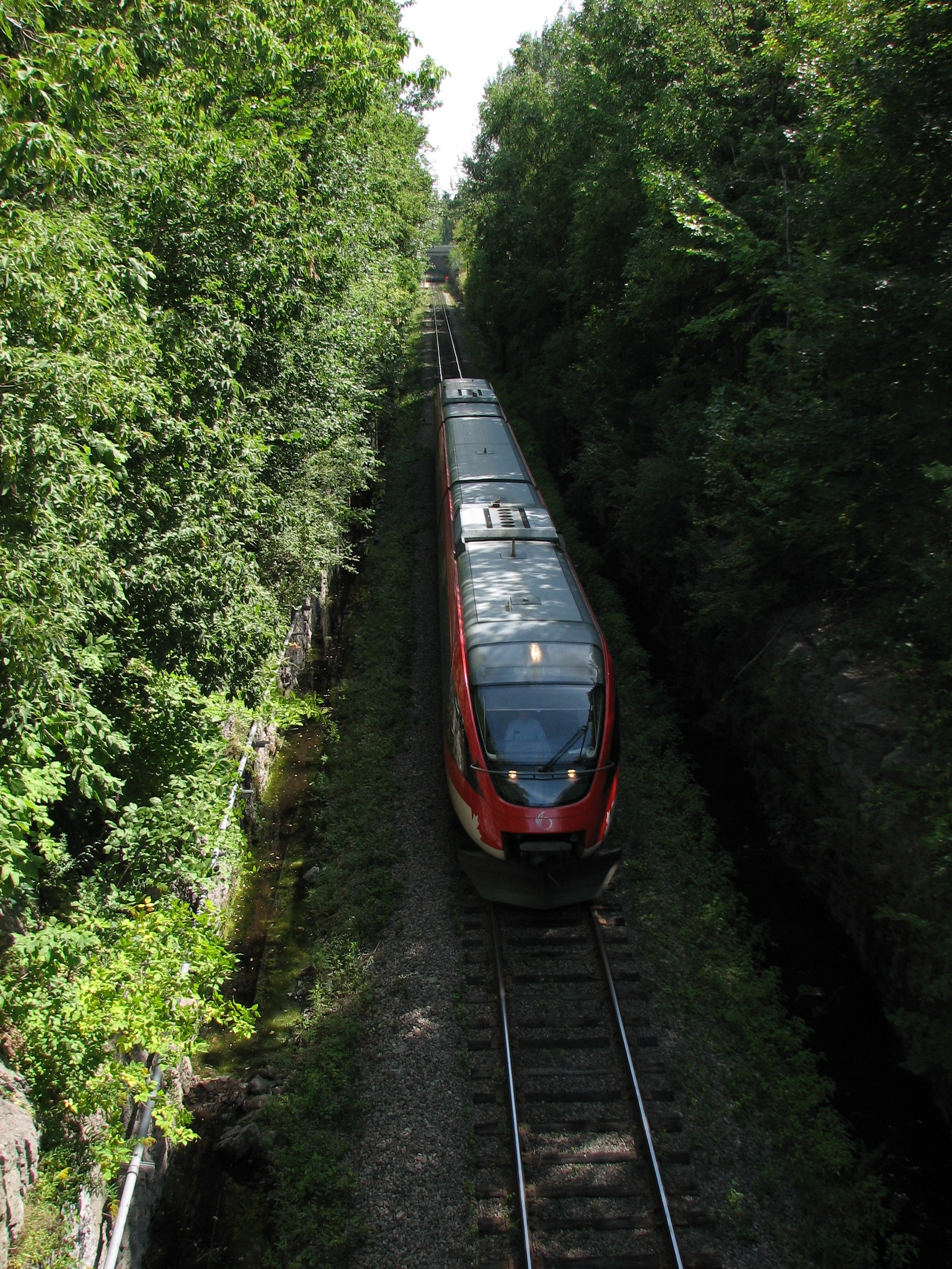 my own stock